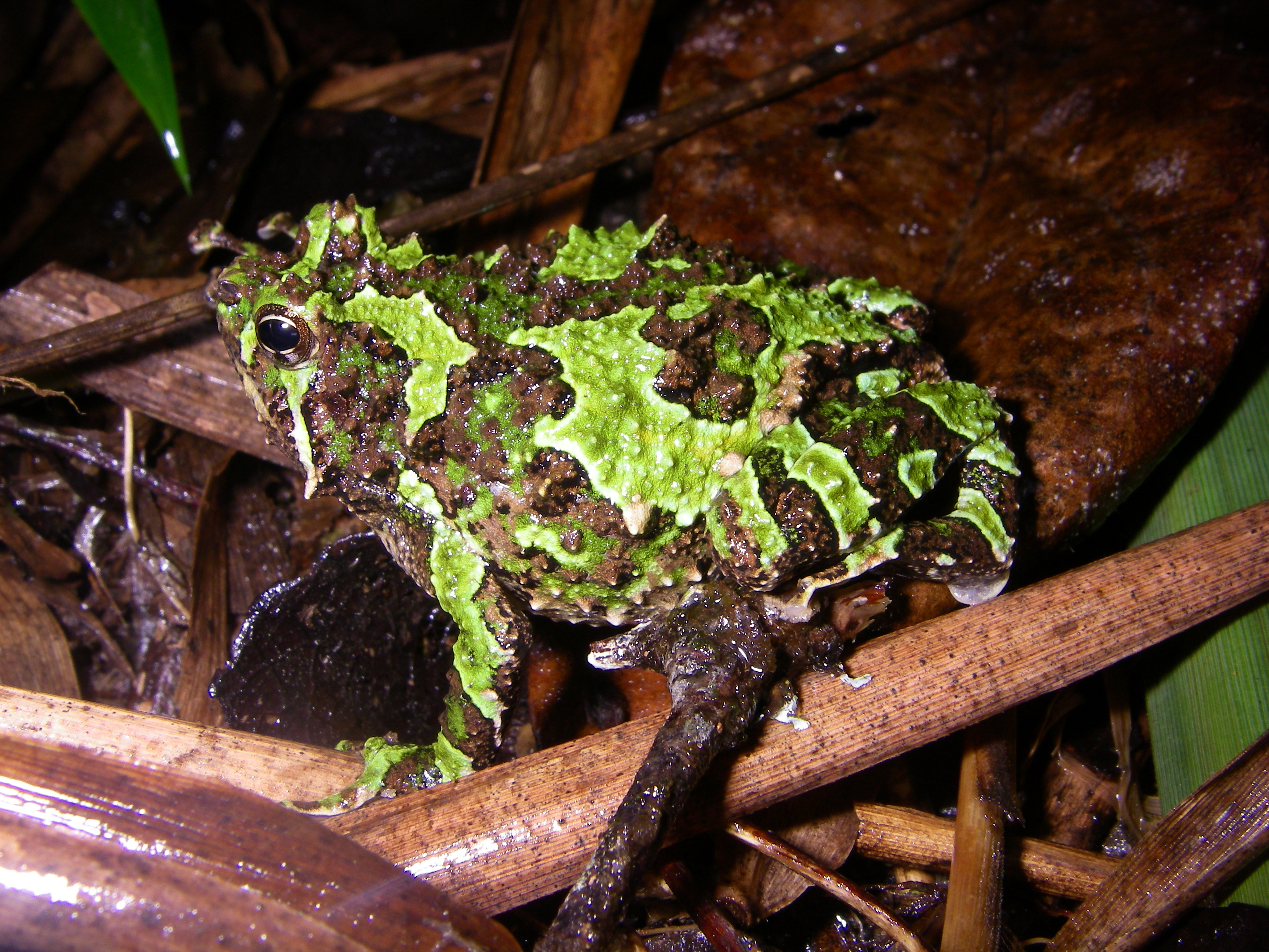 Scaphiophryne spinosa (Microhylidae, Scaphiophryninae), Ranomafana National Park, Madagascar